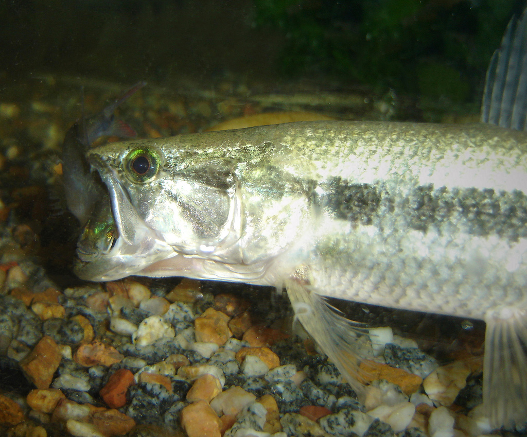 Hoplias malabaricus from Pelotas River, Rio Grande do Sul, Brazil, hunting Astyanax (probably A. eingenmanniorum'). It was photographed on November 2008.